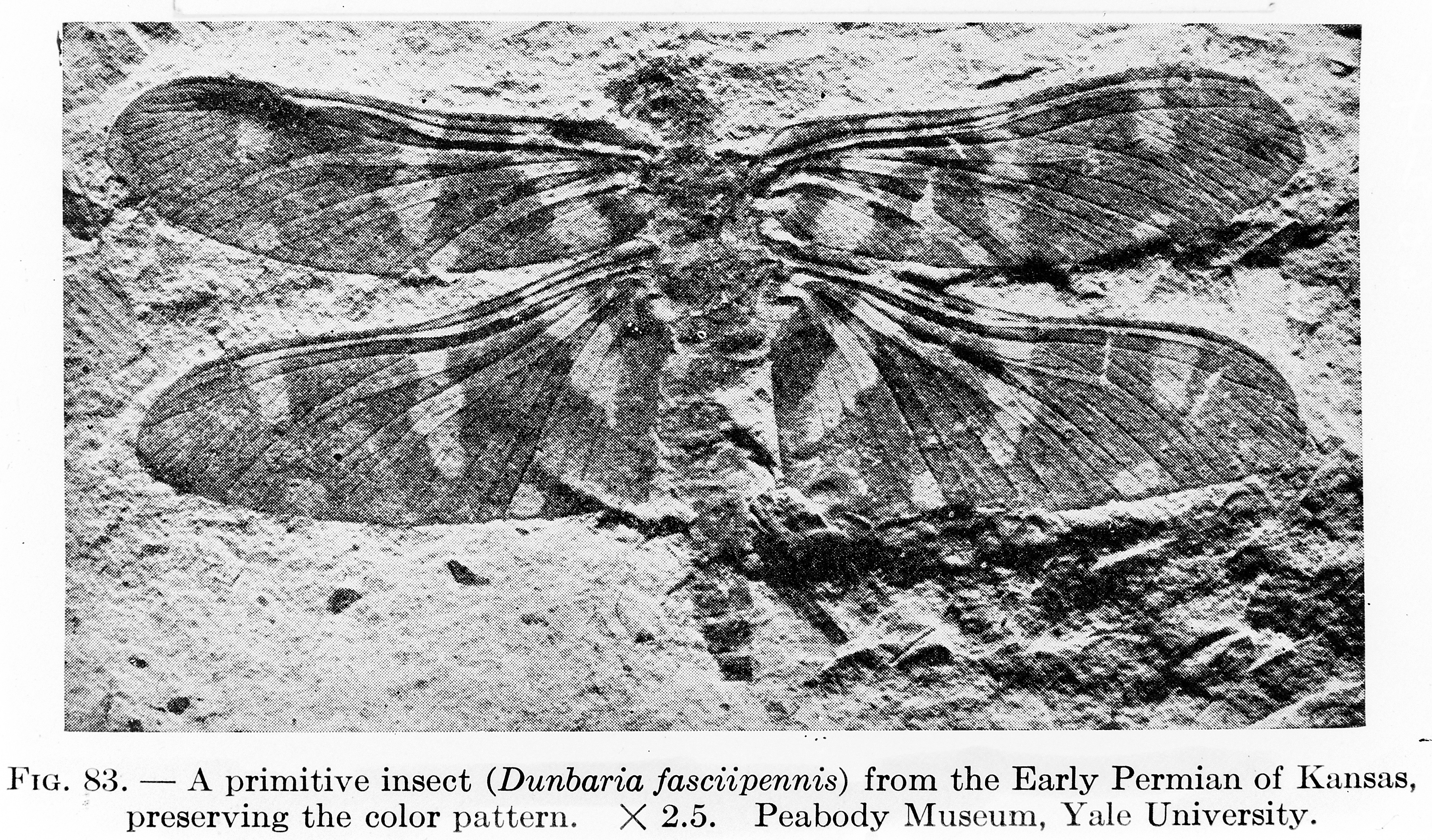 A primitive insect (Dunbaria fasciipennis). From the early Permian of Kansas. Wellcome Images Keywords: Geology